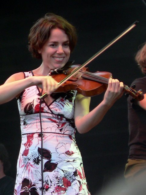 Petra Haden, playing the violin